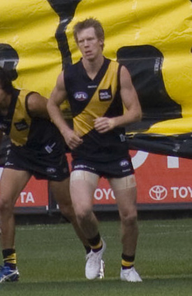 Richmond's players run through the banner before their match with Melbourne in April 2009